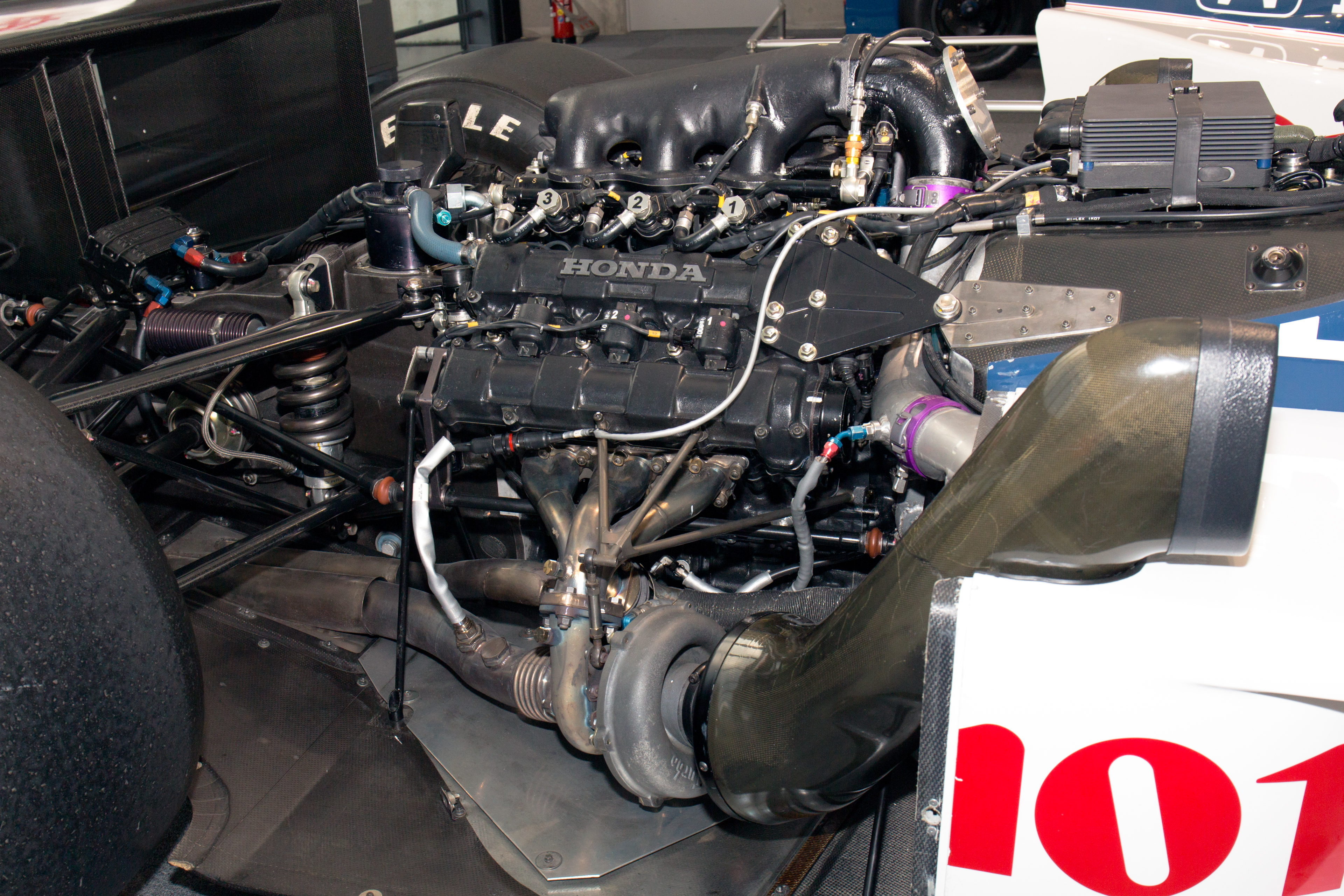 1986 Williams FW11 and Honda RA166E engine